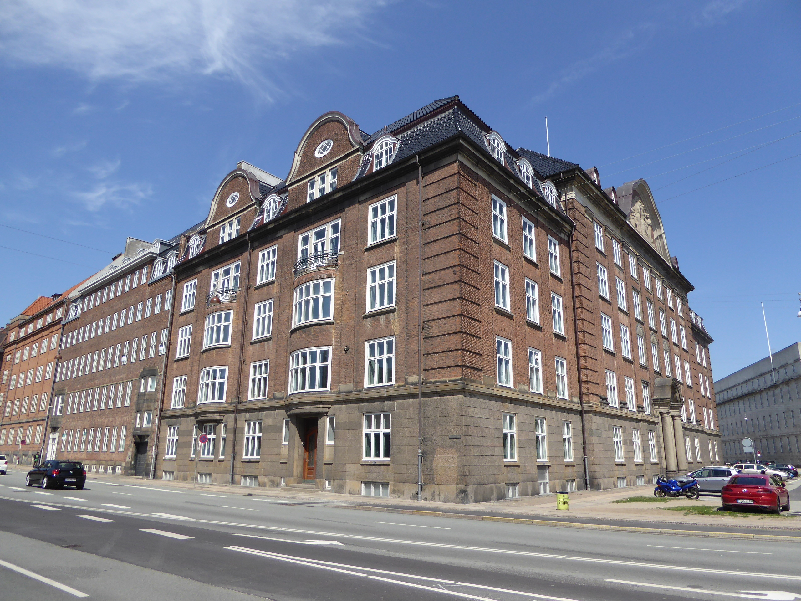 The head office of Rigspolitiet (the National Police of Denmark) at the corner of Bernstorffsgade and Polititorvet in Vesterbro in Copenhagen.